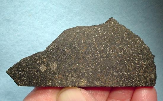 Iron Locality: Uivfaq (Ovifak), Qeqertarsuaq Island (Disko Island), Kitaa (West Greenland) Province, Greenland (Locality at ) Size: 7.8 x 3.5 x 0.6 cm. Native iron is EXTREMELY RARE in igneous rocks, even though it forms the majority of the earth’s core. This OLD-TIME, sawed slab is from the Type Locality, remote Disko Island, Greenland and is richly speckled with bright, metallic native iron in basalt matrix. This specimen dates to the late 1800s and has a fine provenance. Ex. American Museum of Natural History and Larry Conklin Collections. This is old, rare, and seldom seen. Most native iron is extra-terrestrial. This one, however, is from some of the oldest crustal elements humans will ever access, and is a rare find to make it into the hands of specimen collections.